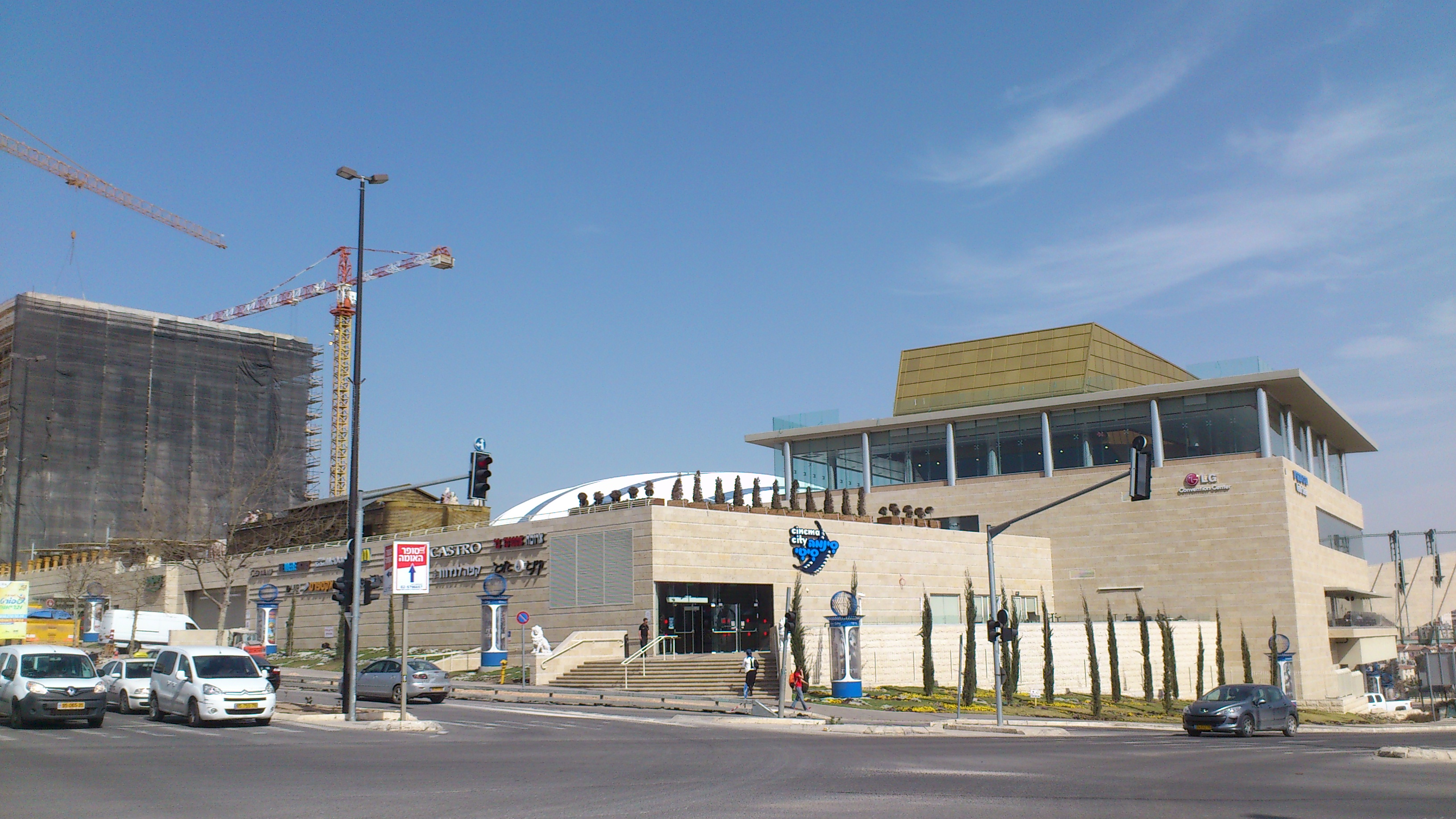 Cinema City, Jerusalem